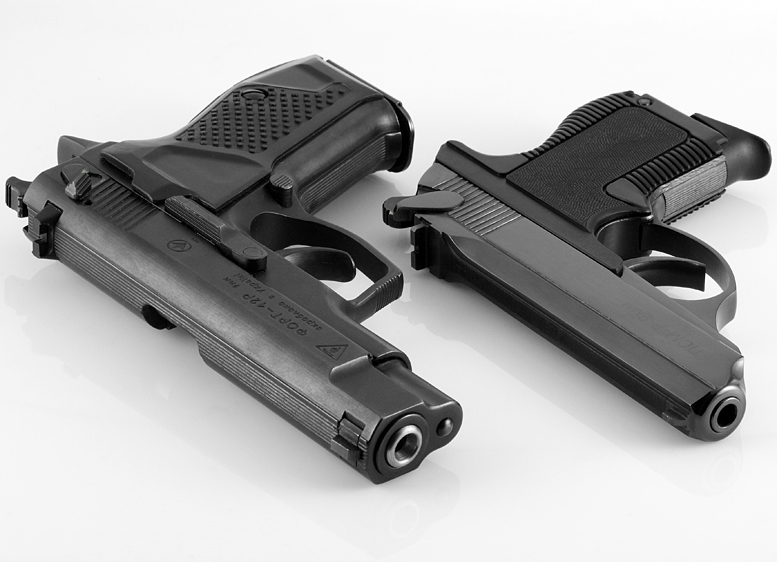 Less Lethal (traumatic) pistoles PSM-R and Fort-12R.